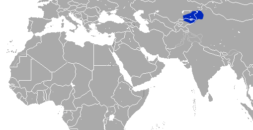 Tien Shan Shrew (Sorex asper) range